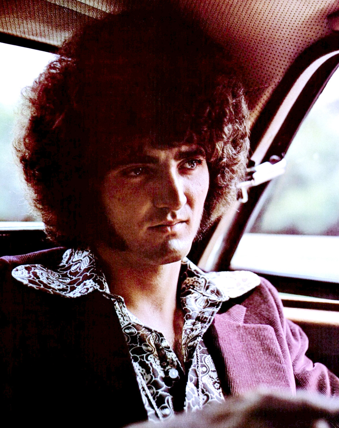 Photo of Don Brewer of Grand Funk Railroad in 1971. Premier Talent Associates (management of band) purchased a 4 page ad in Billboard, with 3 of the pages being a color photo of each band member.